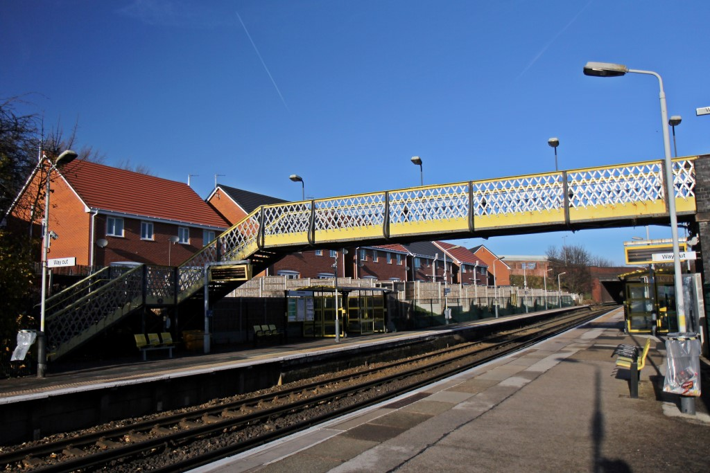 Footbridge, Walton railway station